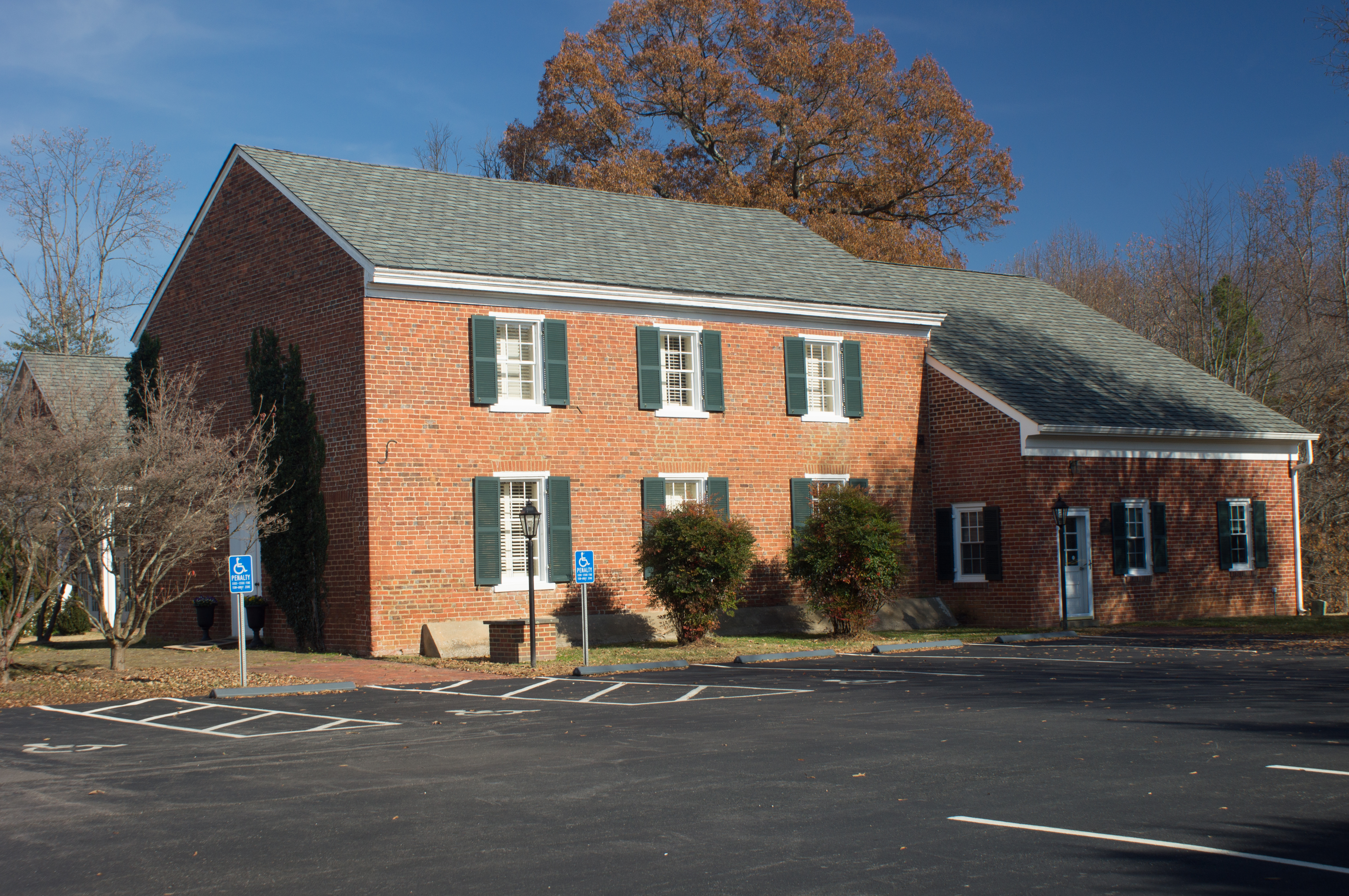 Current picture of church sanctuary building.